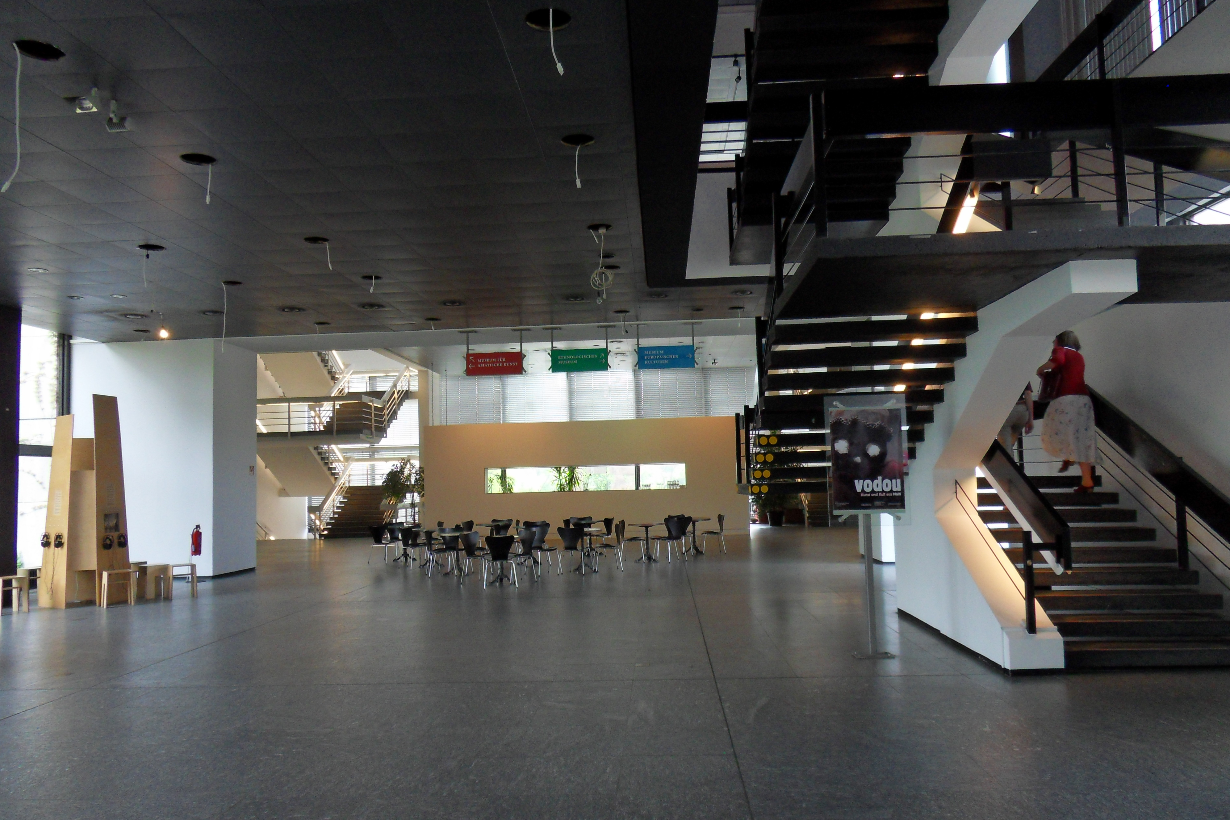 Category:Eingangsbereich der Museen Dahlem: beherbergt das Ethnologische Museum, das Museum für Asiatische Kunst und das Museum Europäischer Kulturen